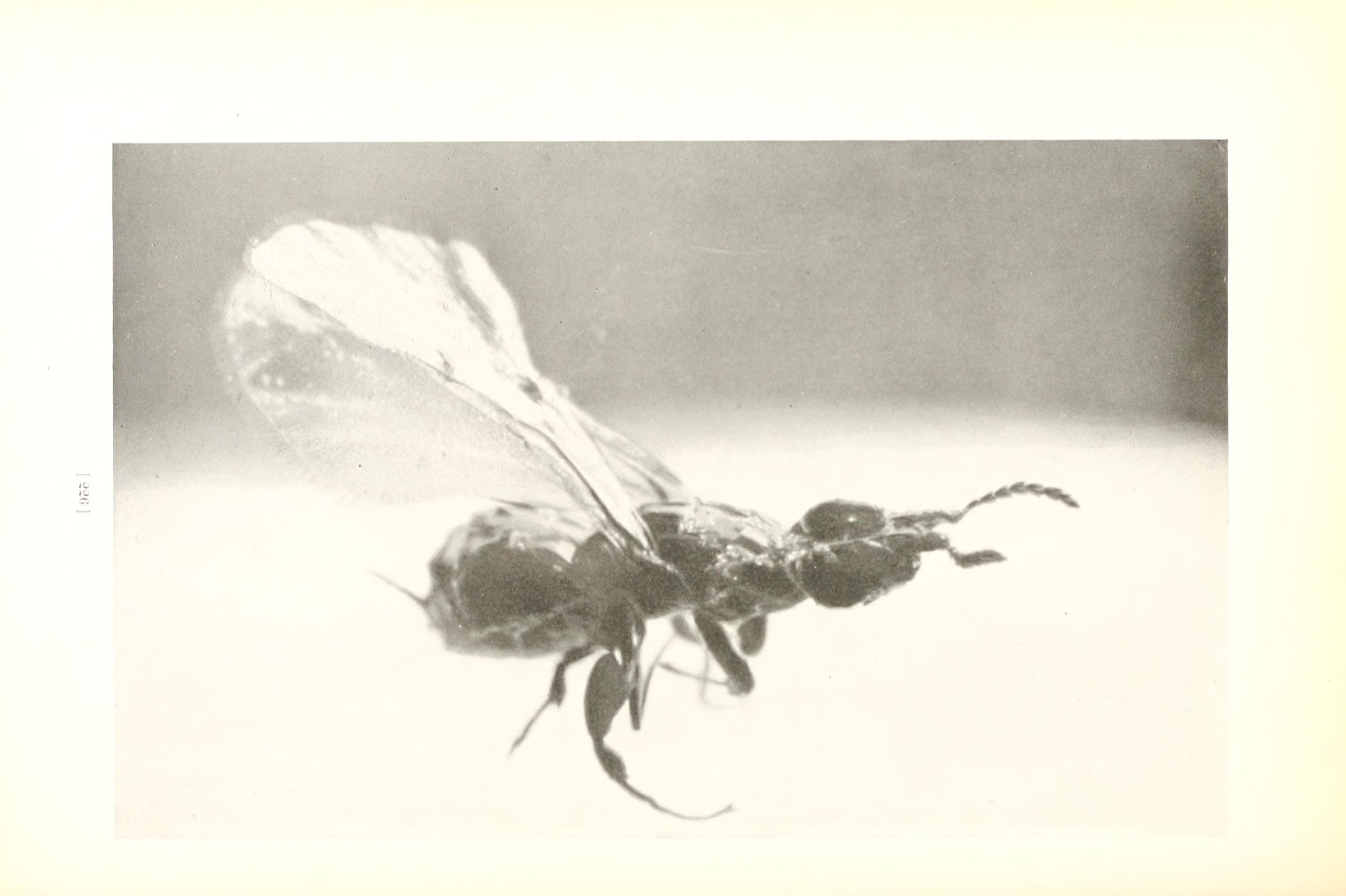 The fig insect on which depends a great plant industry (Blastophaga grossorum syn. Blastophaga psenes)